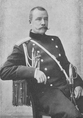 Flug, Vasily Yegorovich